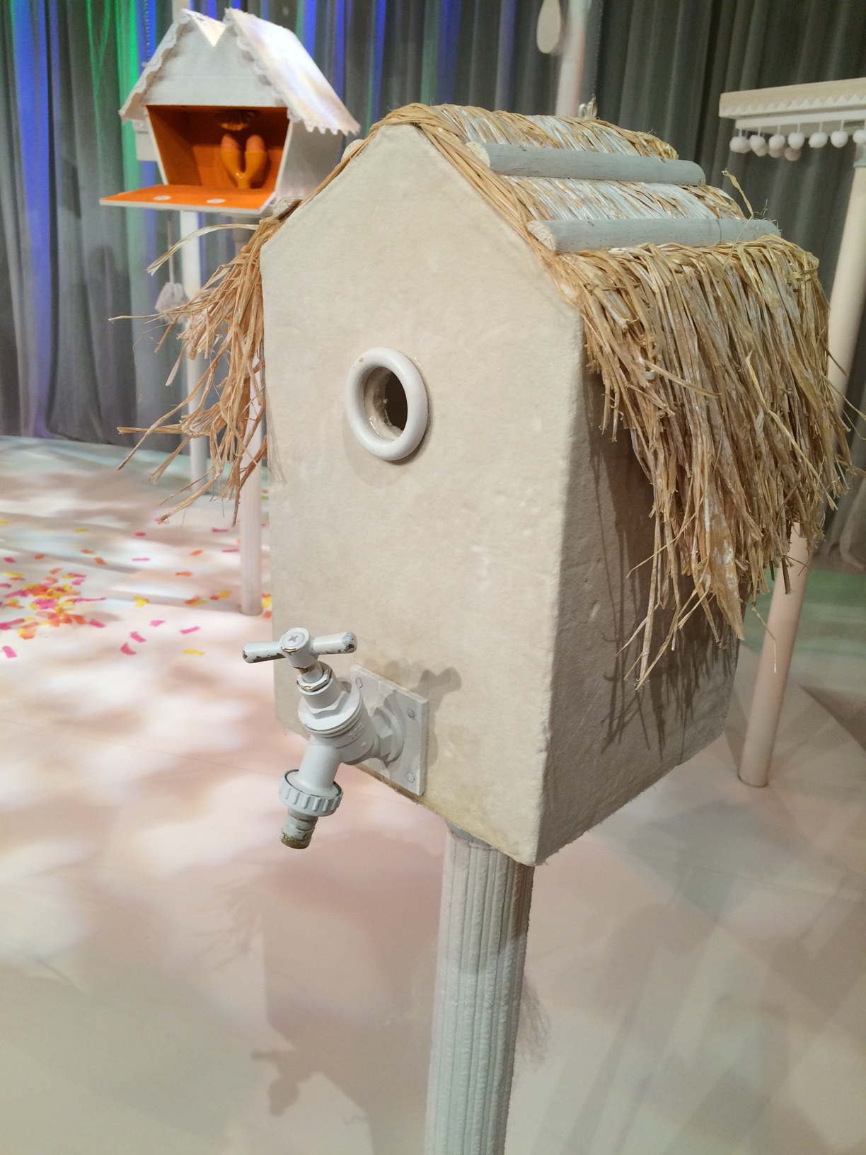 The theatrical set from "White" by Catherine Wheels Theatre Company, 2010. The set is made up of bird boxes on stands, individually decorated but all painted white.